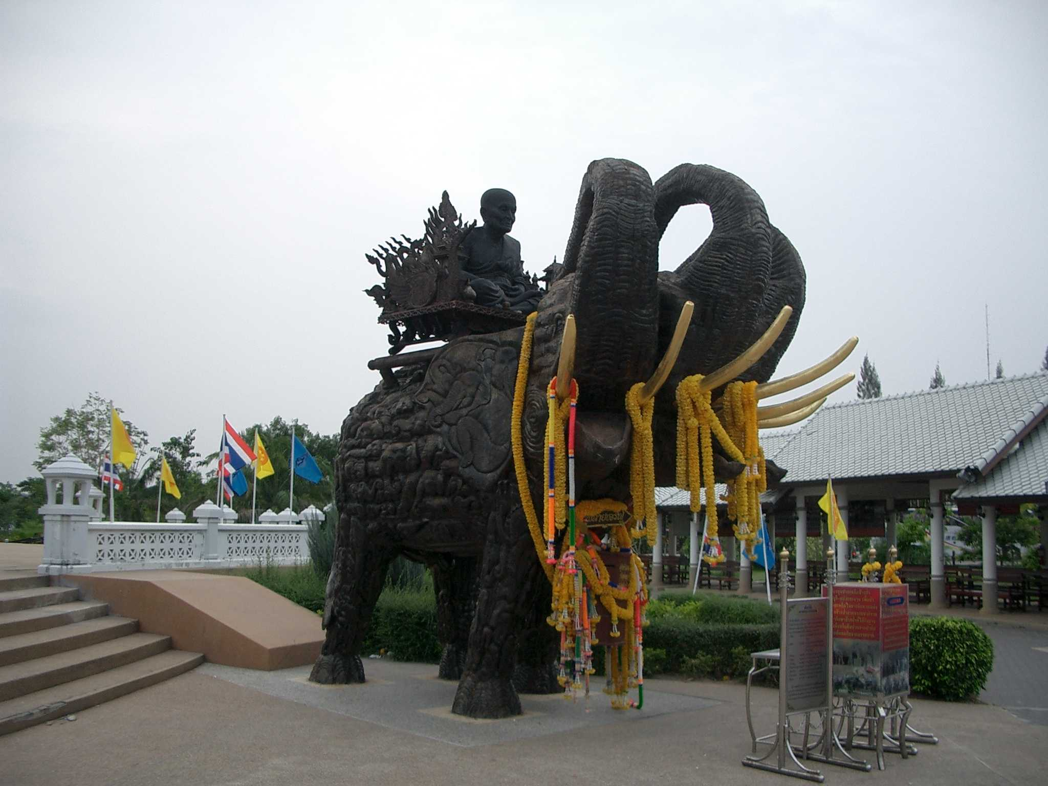 Luang Pu Thuat and Elephant Wooden Status at Wat Huai Mongkhon, Prachuap Khiri Khan Province, Thailand